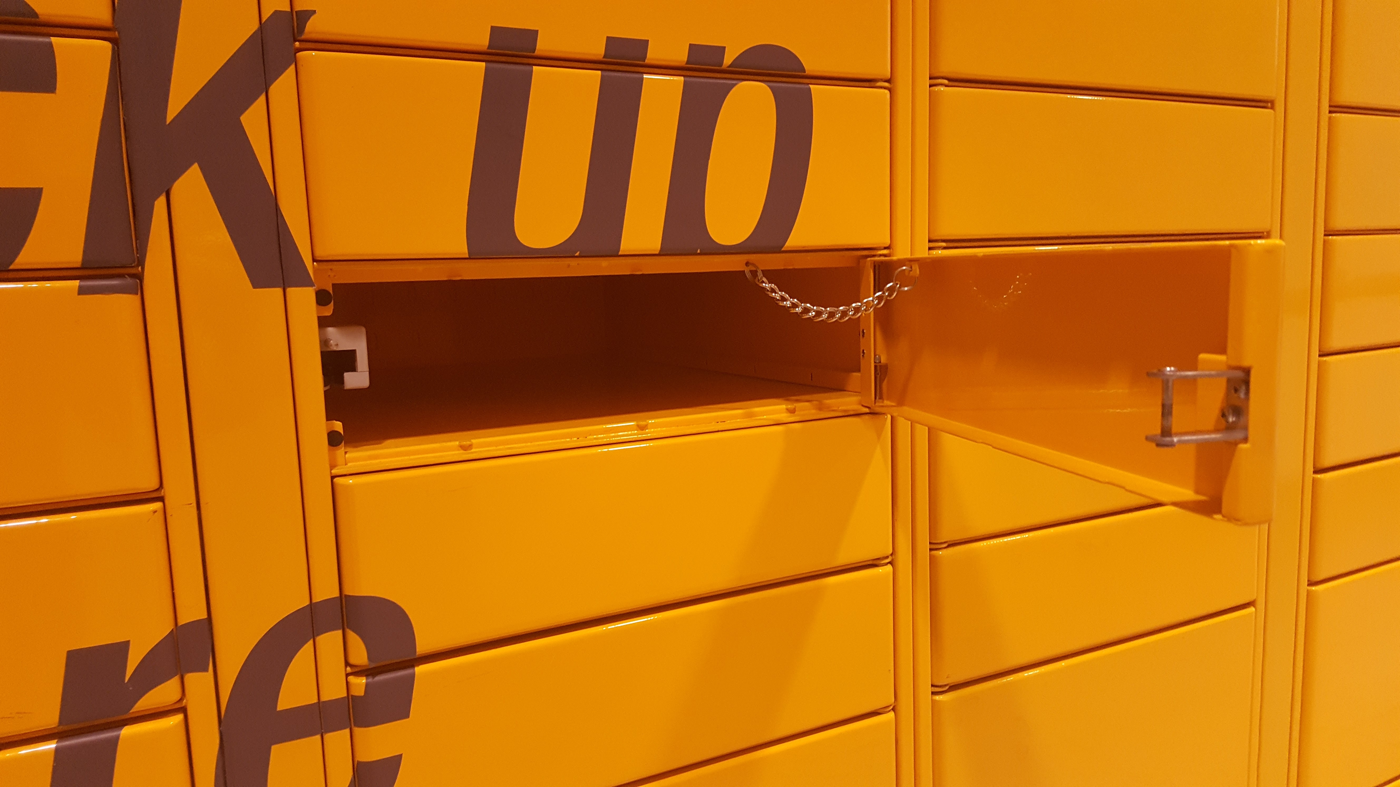 Amazon Locker "Faust" on the first floor of One New Change, in the corridor to the toilets.